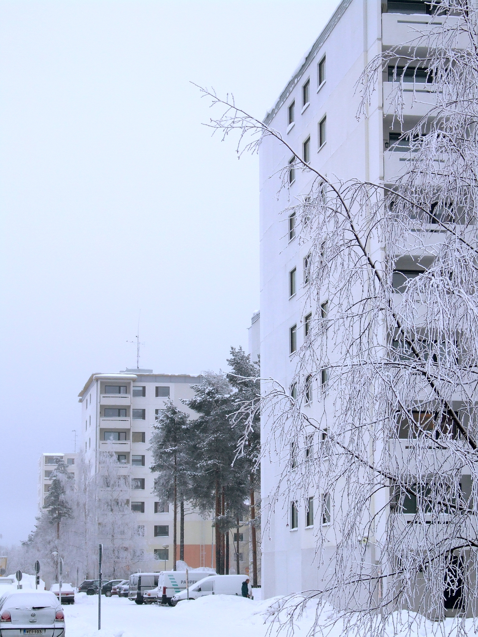 Kaijonharju, Oulu, Finland